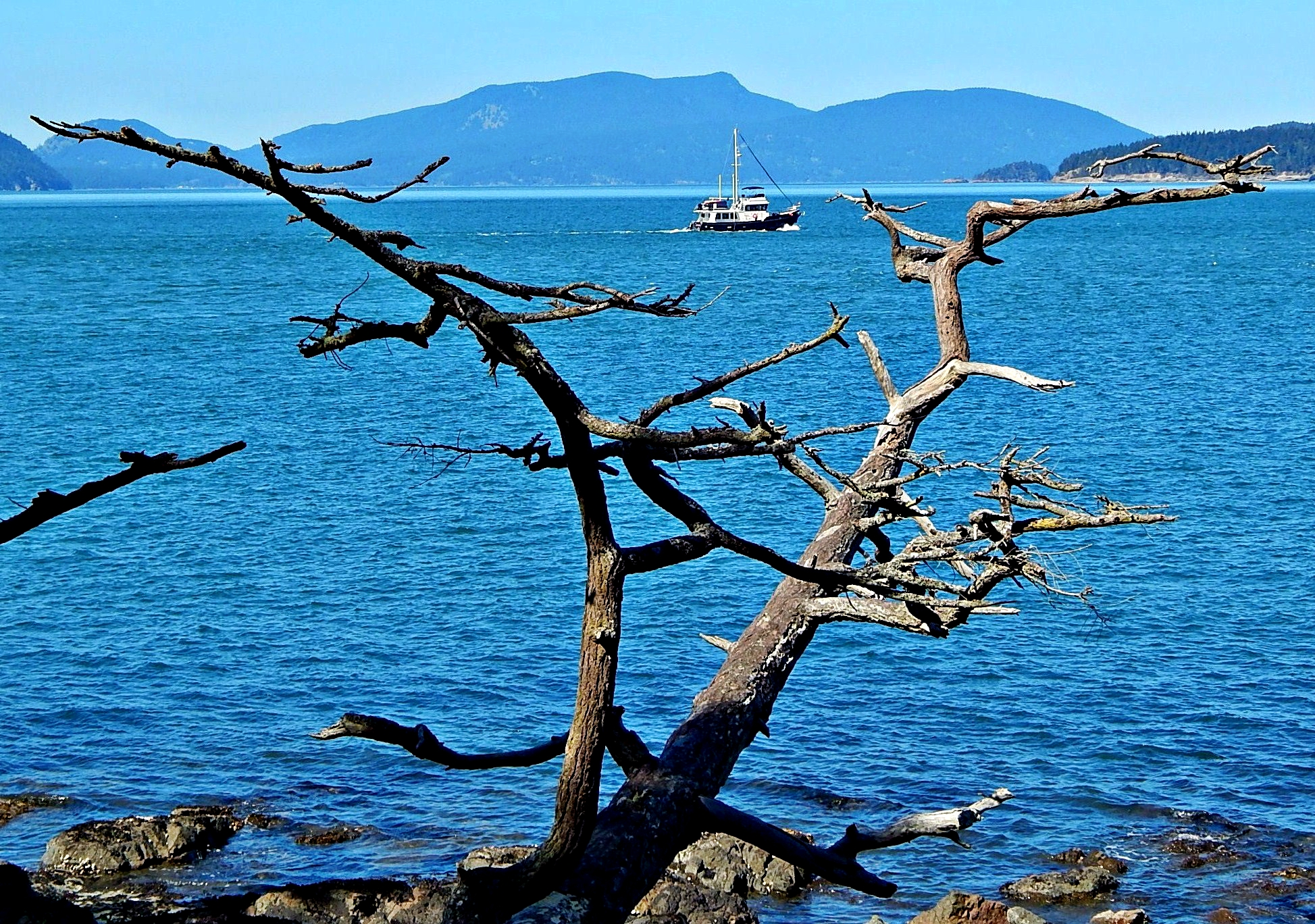 Rosario Strait viewed from Washington Park at Anacortes, WA looking toward Mount Constitution on Orcas Island